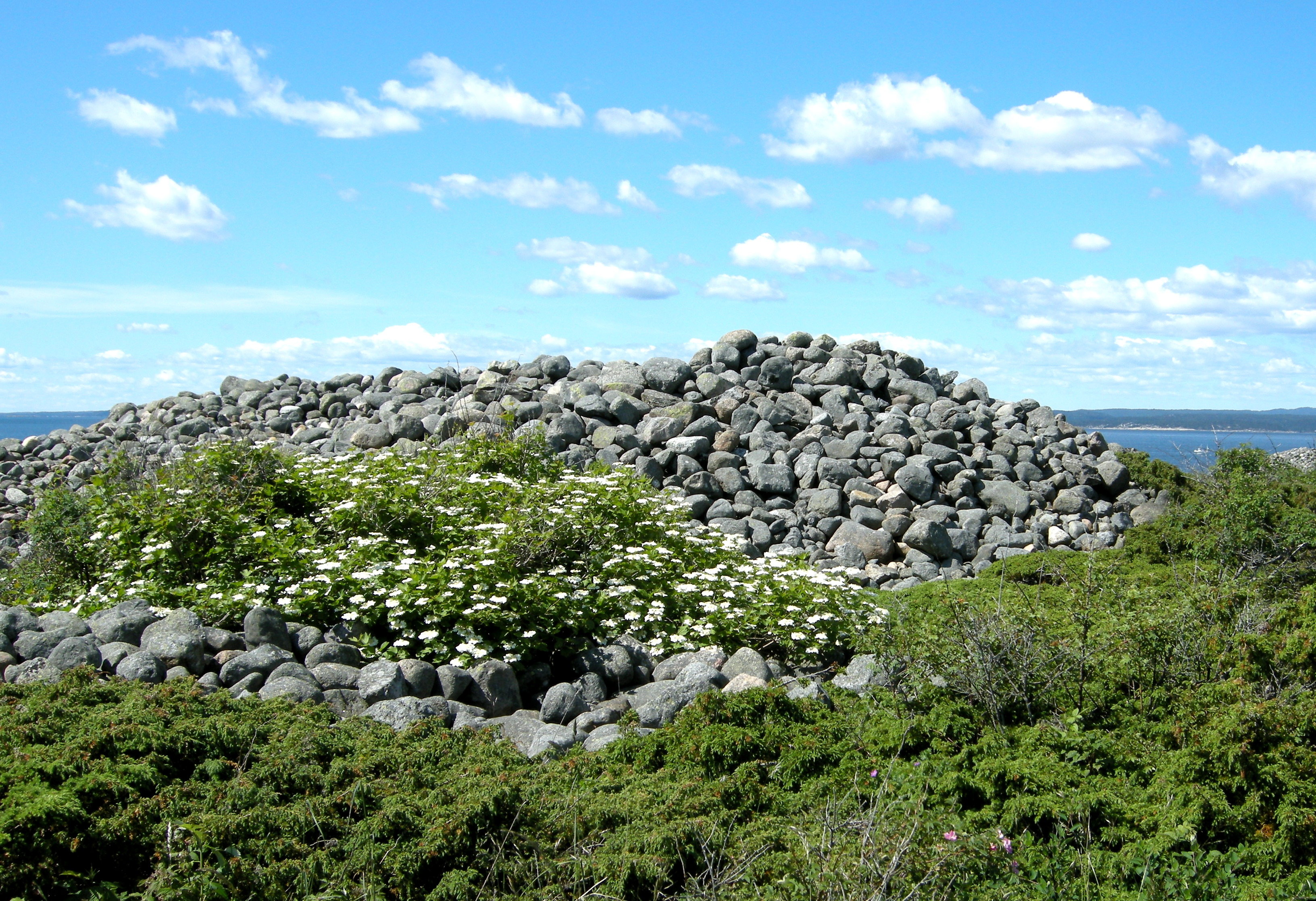 Tumulus at Mølen, Larvik, Norway